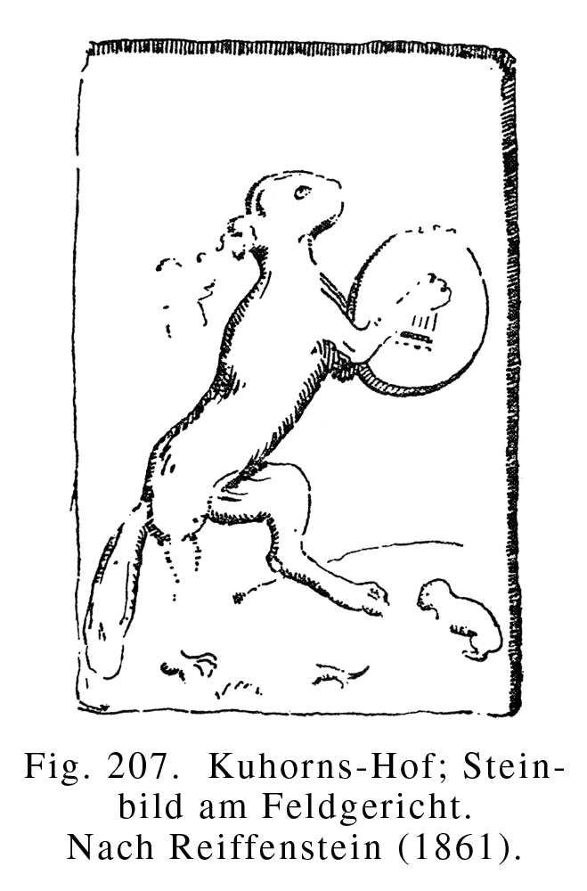 Frankfurt on the Main: Kuehhornshof, image in stone at the field court